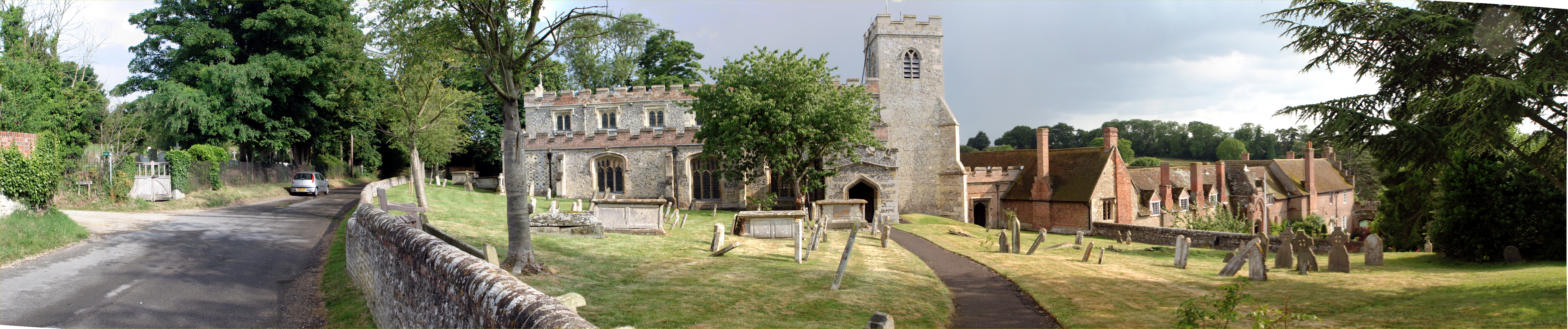 A view across the graveyard to Ewelme Village Church